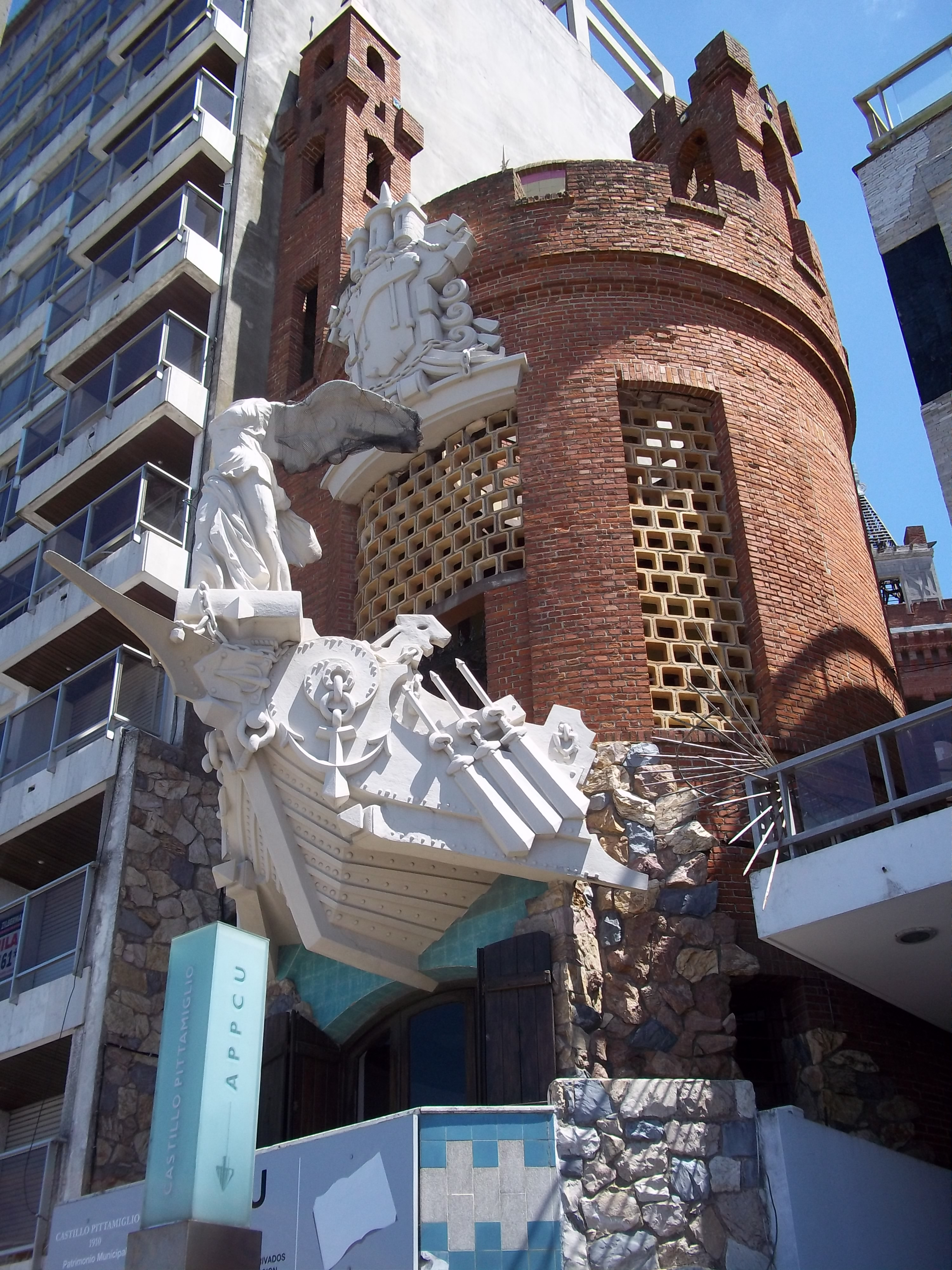 Back door of Pittamiglio Castle in Rambla of Montevideo, Uruguay, 2013.